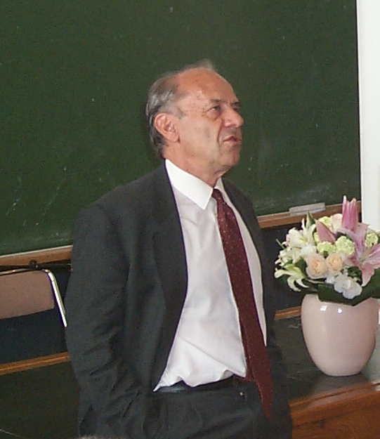 Pr Etienne Guyon, at that time director of the Ecole Normale Supérieure in Paris was chairing a ceremony honoring Pr Françoise Brochard-Wyart (Légion d'Honneur)